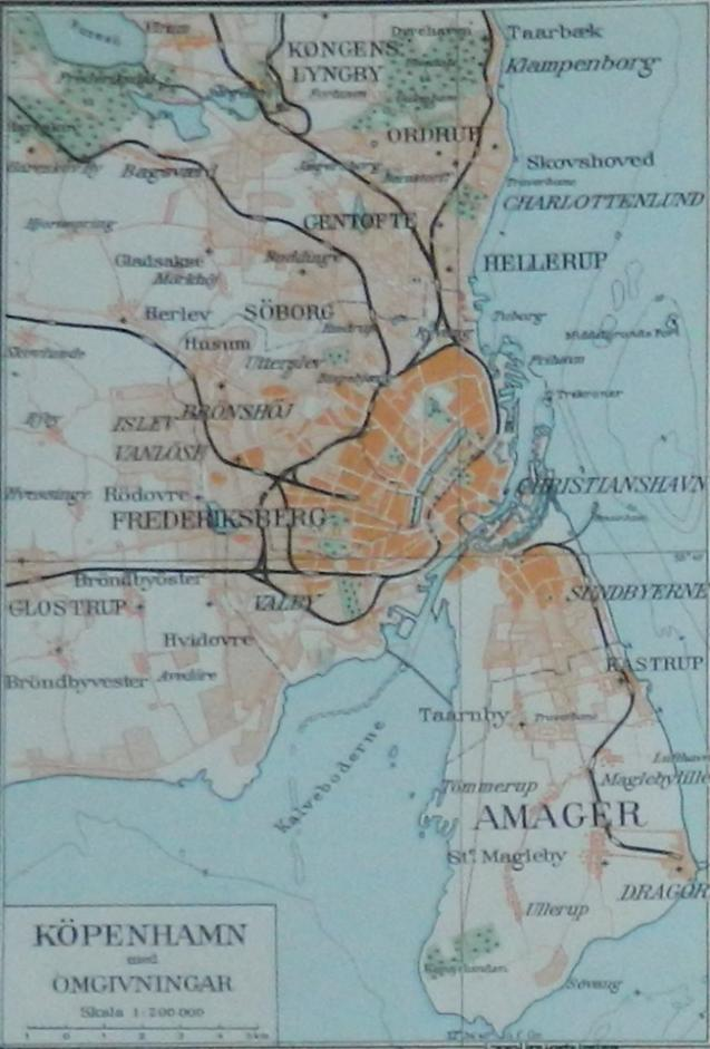 Swedish map from Swedish encyklopedia, "Svensk Uppslagsbok" printed in 1945